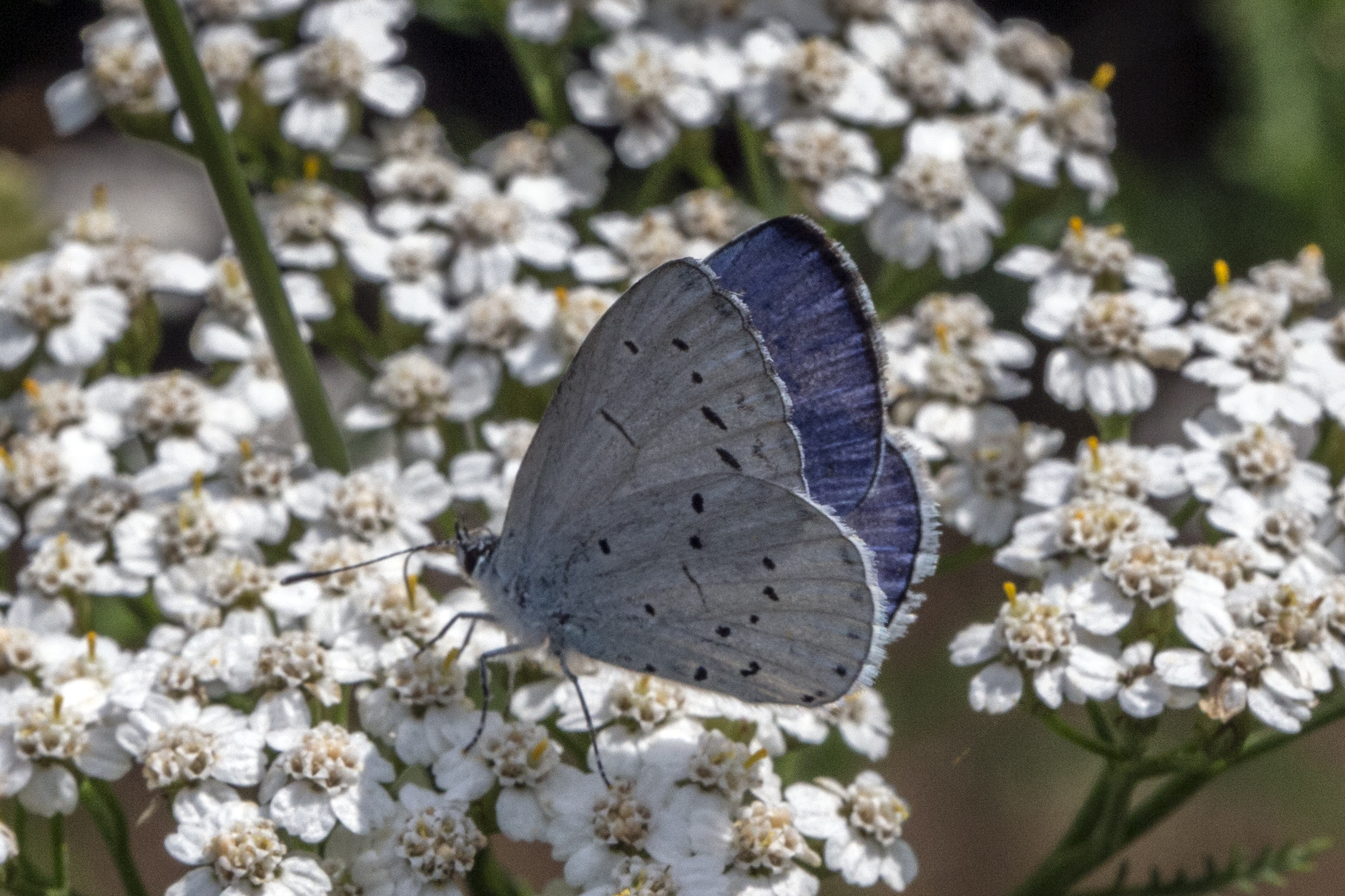 The Holly Blue, male Lodz(Poland)